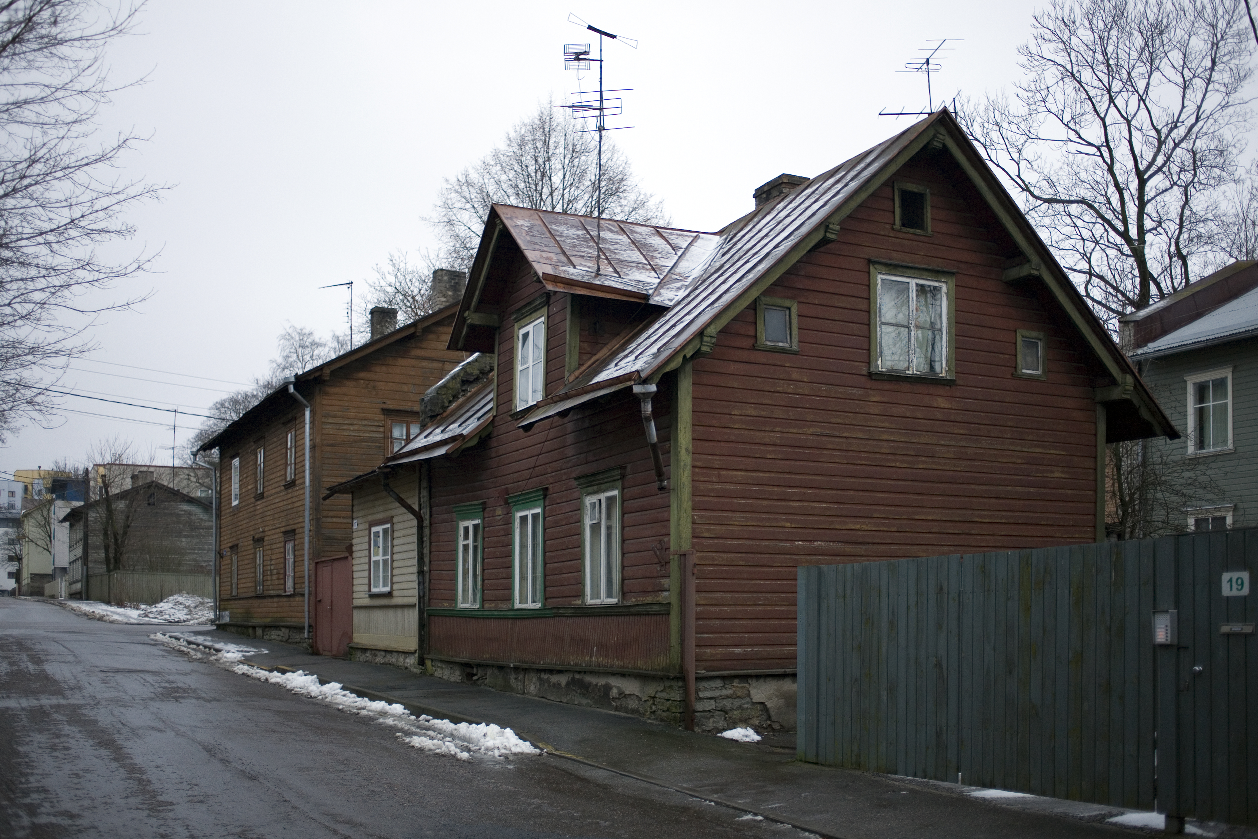 Roopa Street in Tallinn, Kesklinn borough. Wooden building from the end of 19-th century.